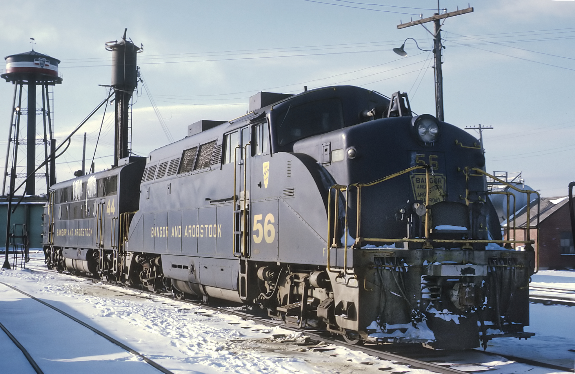 Two diesel locomotives of the Bangor and Aroostook Railroad, an EMD BL2 and an EMD F3, at Northern Maine Junction in 1970.